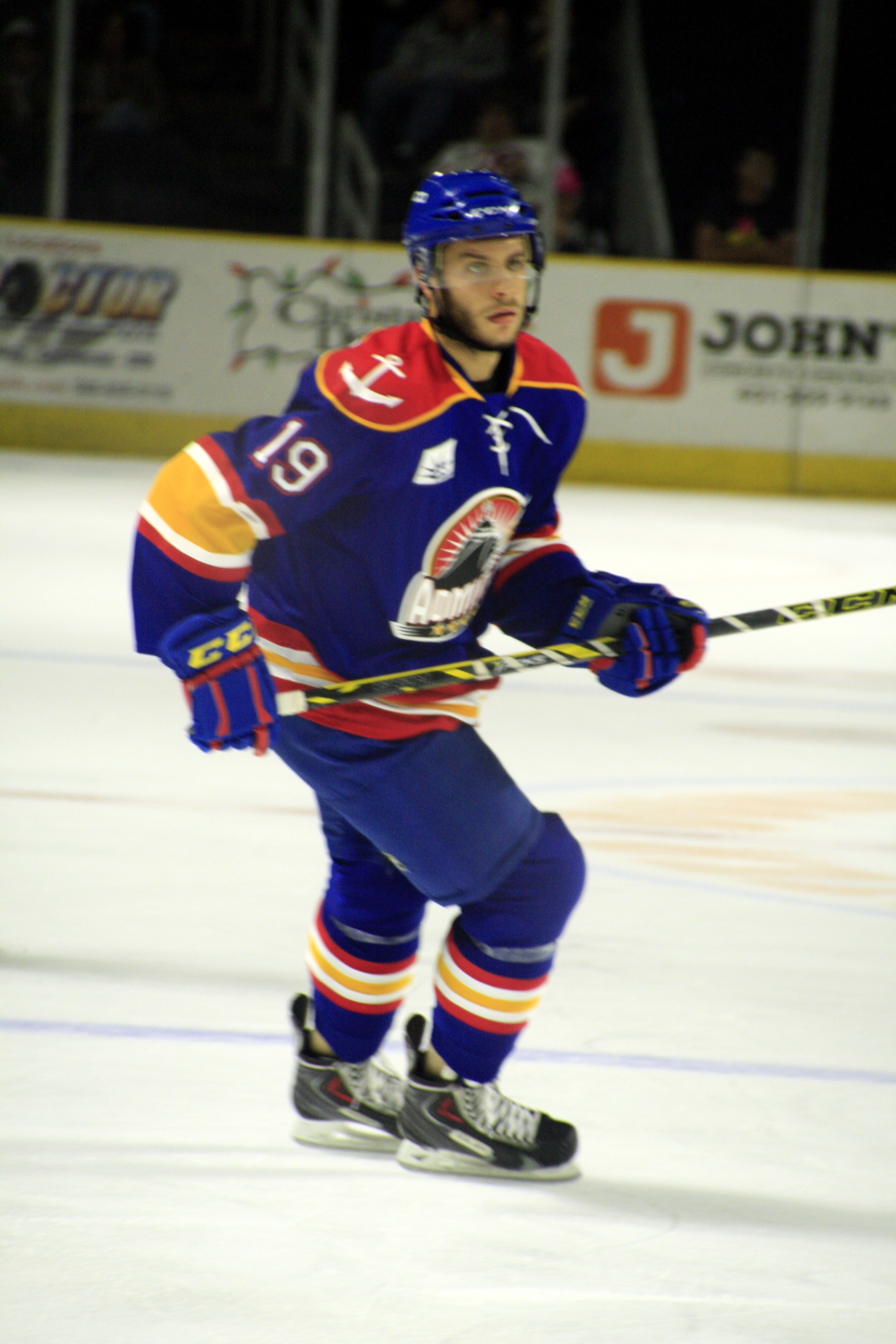 Cramarossa with the Norfolk Admirals (2014).